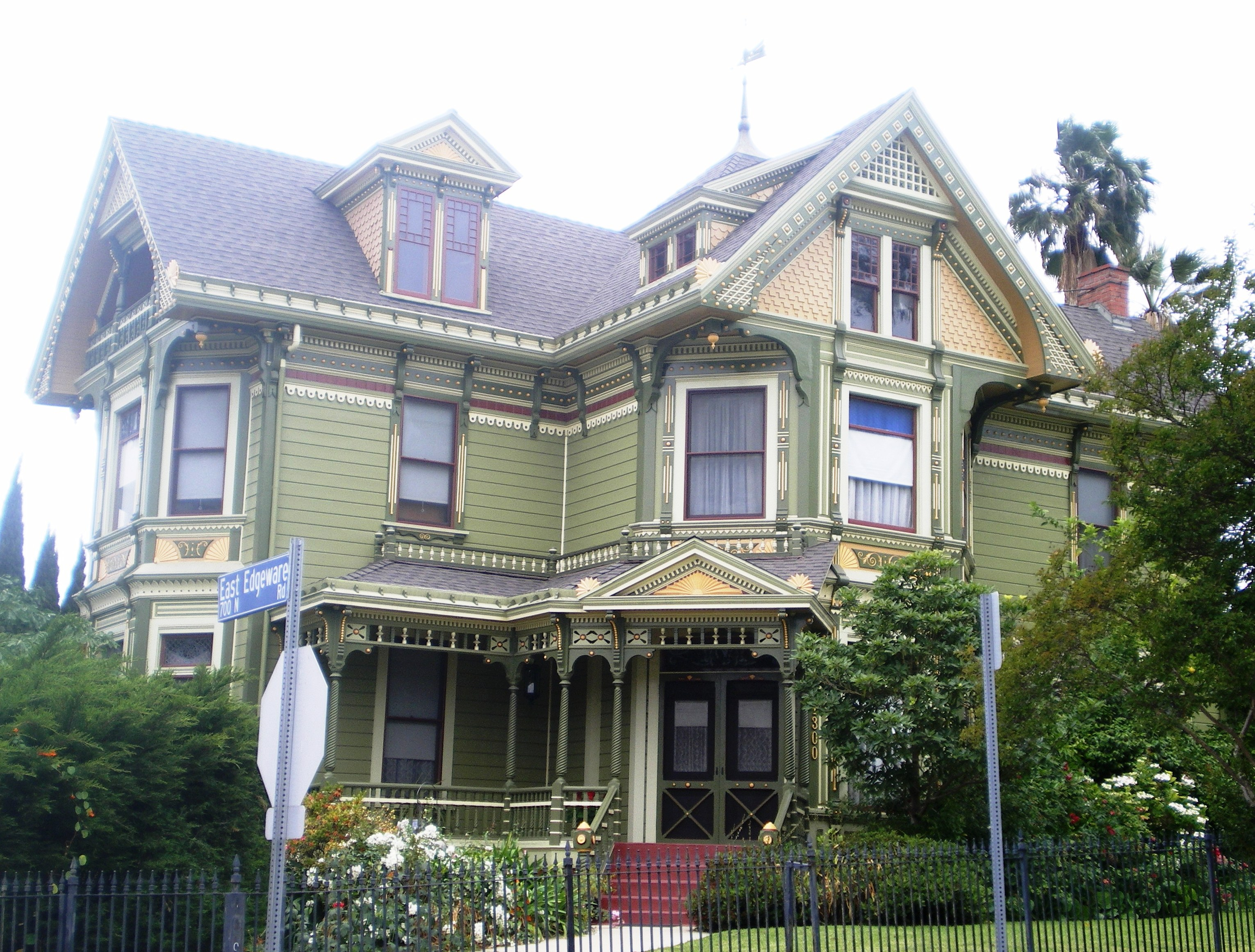 Phillips House at 1300 Carroll Ave., Angelino Heights, Los Angeles, California. Victorian house in Queen Anne-Eastlake style, built by Aaron P. Phillips in 1887.